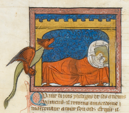 Olympias and Nectanabus conceive Alexander; detail of a miniature from BL Royal MS 19 D i, f. 4v. Held and digitised by the British Library.